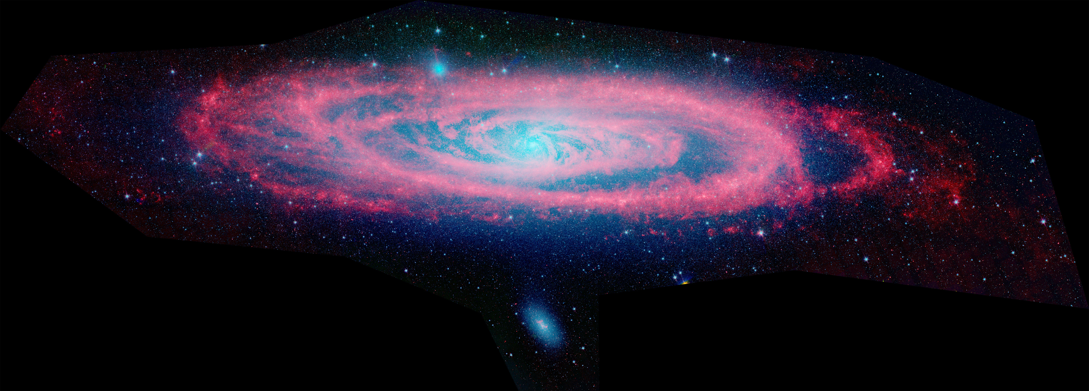 Image of Adromeda Galaxy in infrared.